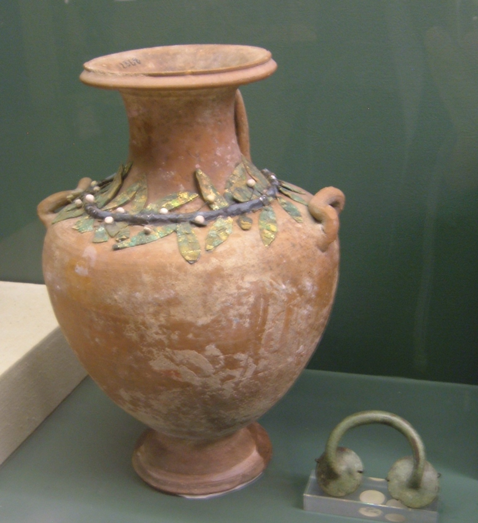 Ceramic Greek hydria and bronze hydria handle (Ptolemaic Period) on display at the Rosicrucian Egyptian Museum in San Jose, California. RC 1630, 2079